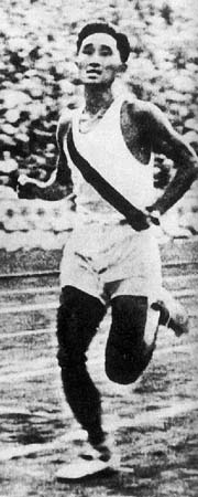 Nam Sung-ryong coming in 3rd at the 1936 Berlin Olympics